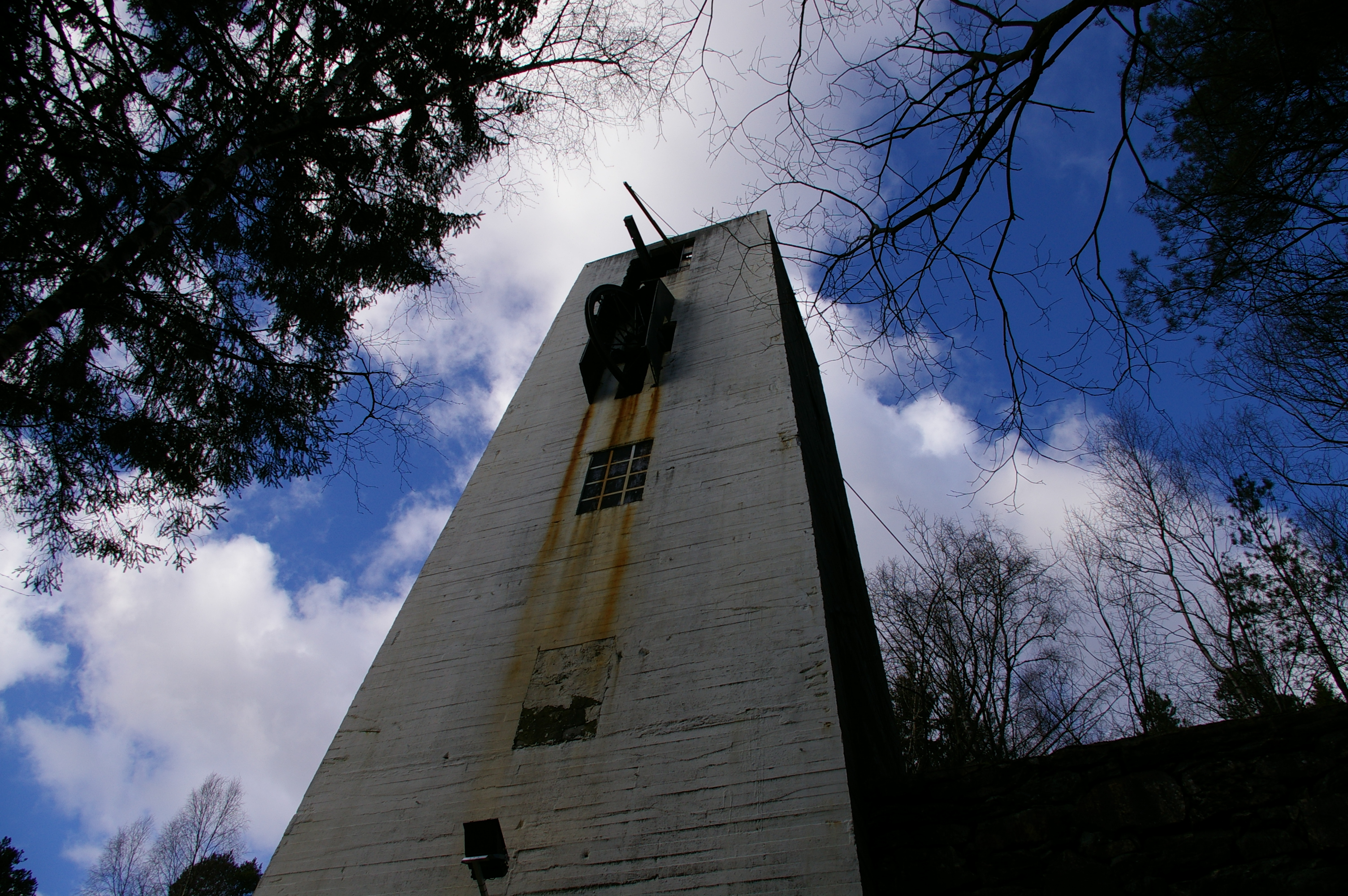 The elevator tower at Stordø Kisgruber